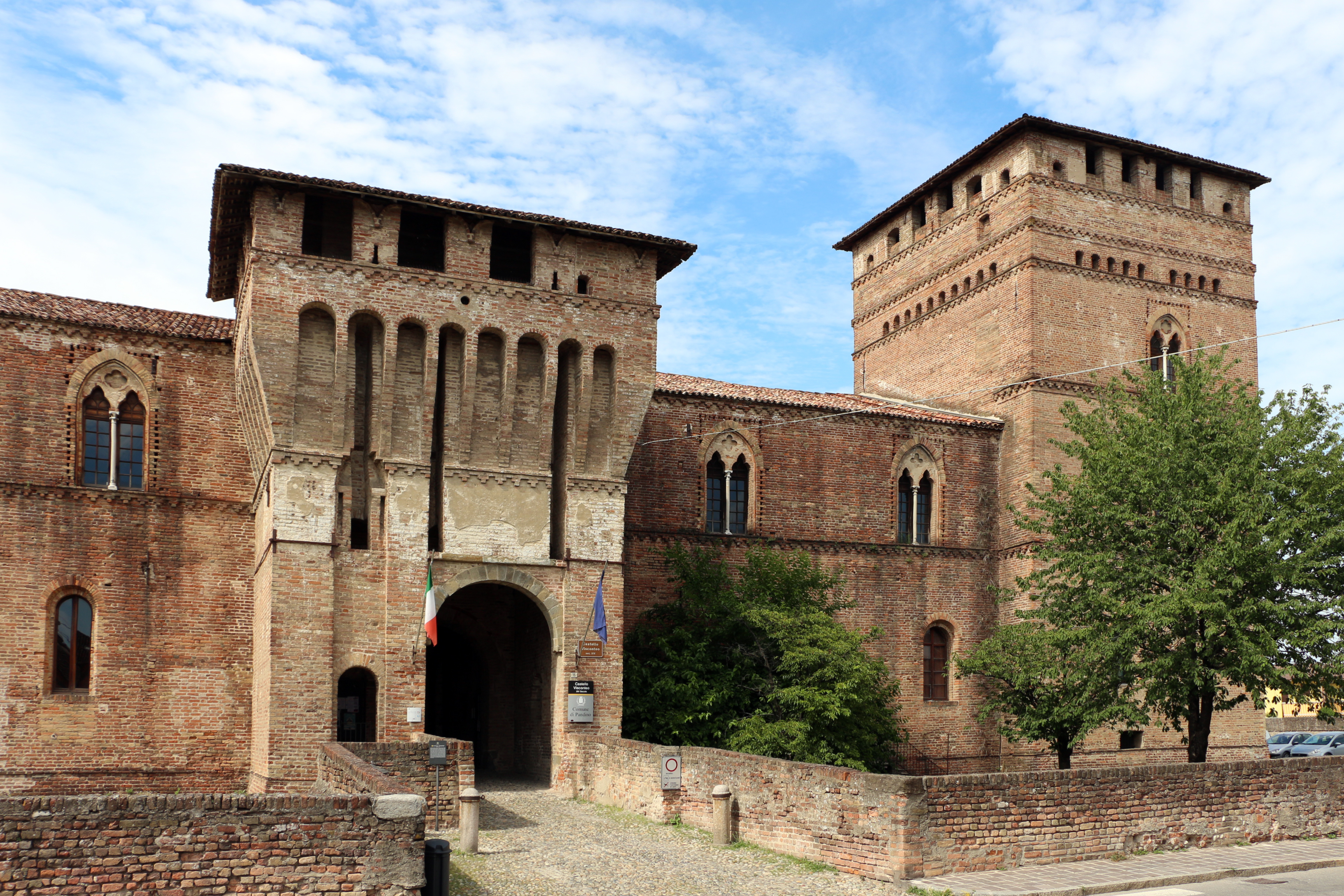 Pandino